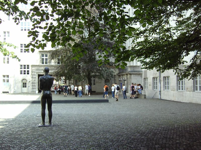 The so-called Bendlerblock in Berlin, where the "German Resistance Memorial Center" is located